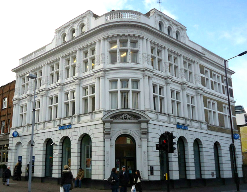 Photograph taken in the town centre area of Sutton, a medium sized town within Greater London, on the edge of Surrey.